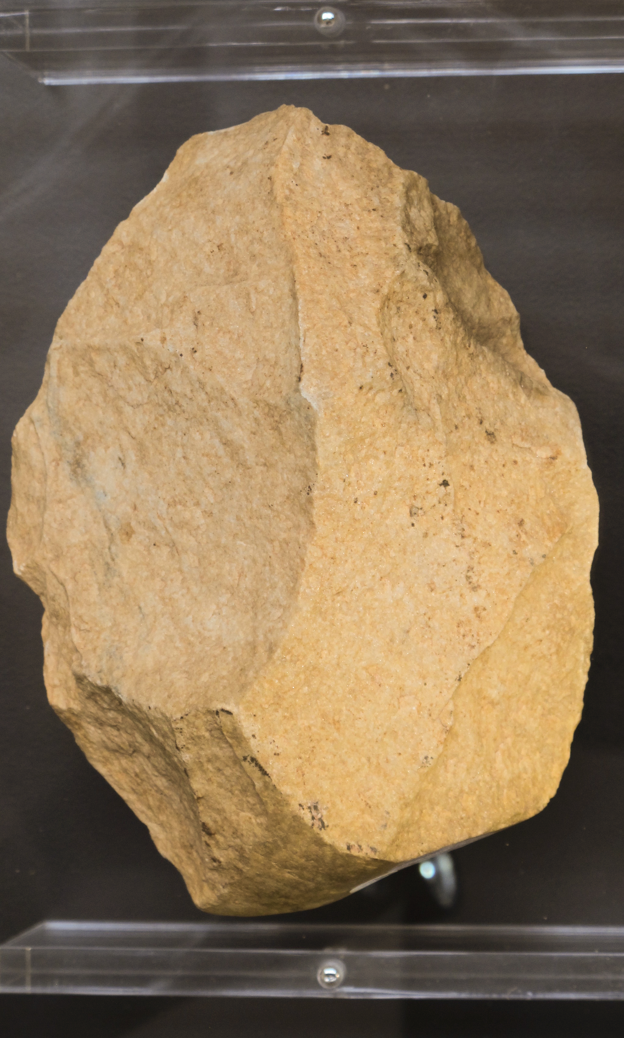 Stone hand axe. Imjin–Hantan River Basins. Korea. Lower Paleolithic. H. about 20 cm. Yonsei University Museum. Korea. Exposition 2016 : La Corée des origines au Musée de l'Homme, Paris.